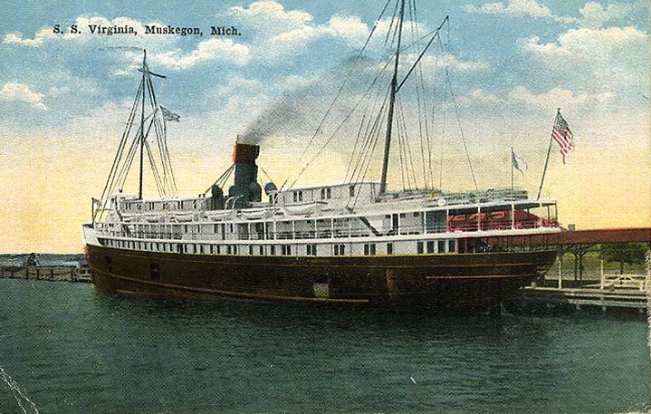 S.S. Virginia (American Great Lakes Passenger Liner, 1891) At Muskegon, Michigan, prior to World War I. Color-tinted post card published by the E.C. Kropp Co., Milwaukee, Wisconsin. The original card was postmarked at Muskegon on 28 August 1916. This ship served as USS Blue Ridge (ID # 2432) in 1918-1919. Original caption: "Photo # NH 105838-KN S.S. Virginia at Muskegon, Michigan. She was USS Blue Ridge in 1918-1919"